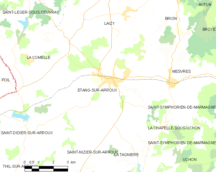 Map of French municipality